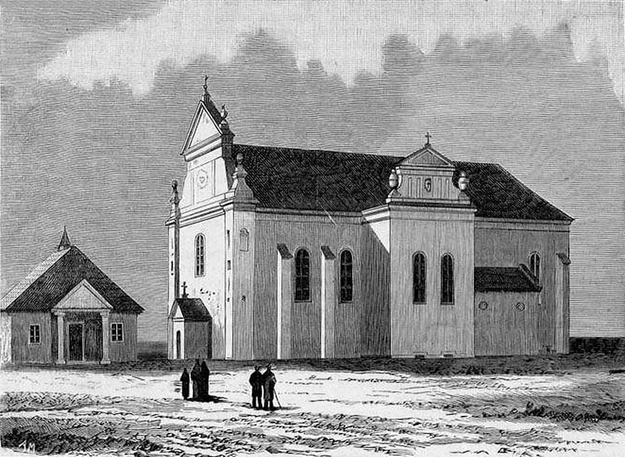 Catholic Church in Słonim